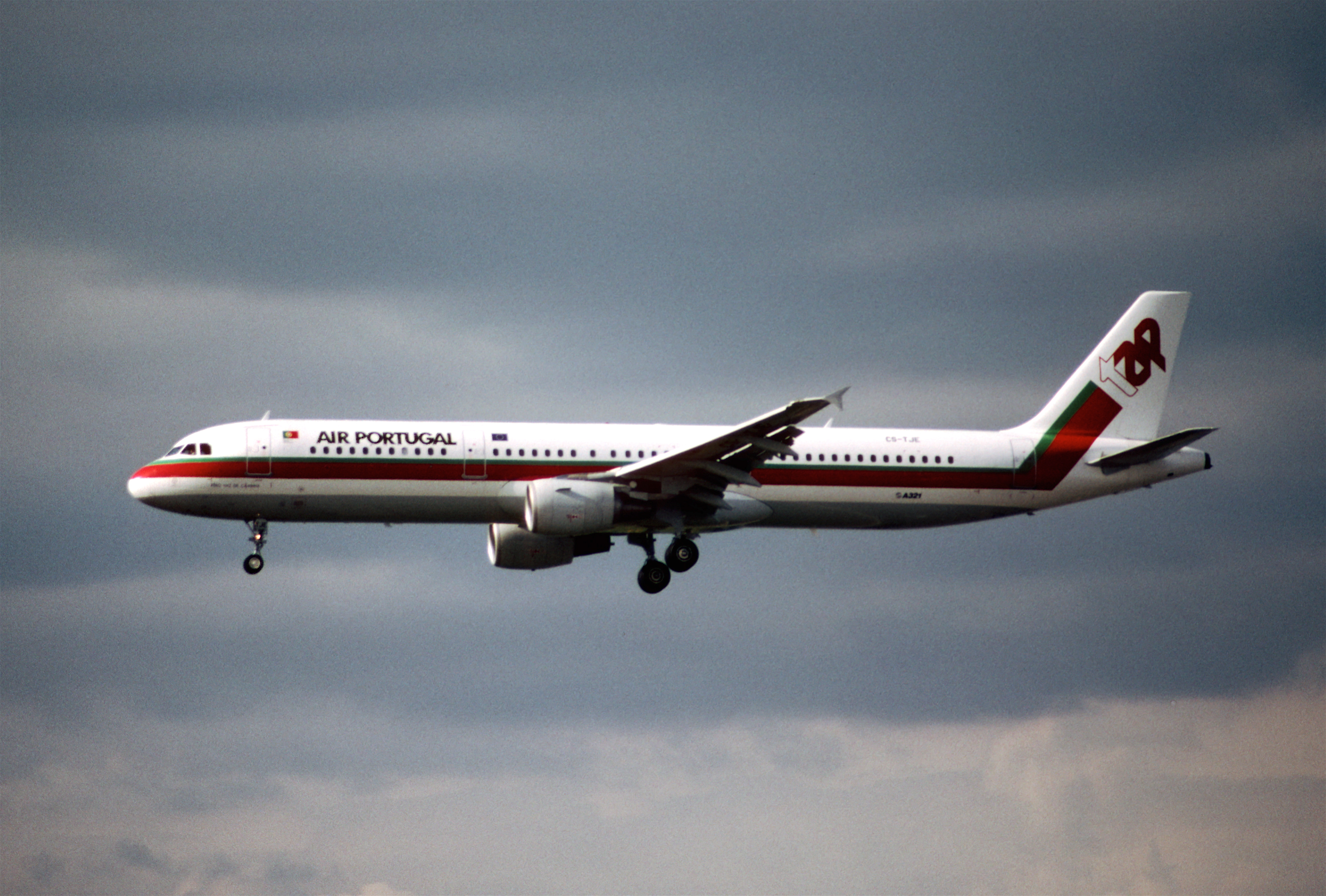 This A321, named 'Pero Vaz de Caminha', took its first flight on August 18, 2000 and was delivered to TAP on August 30, 2000...(c/n 1307)